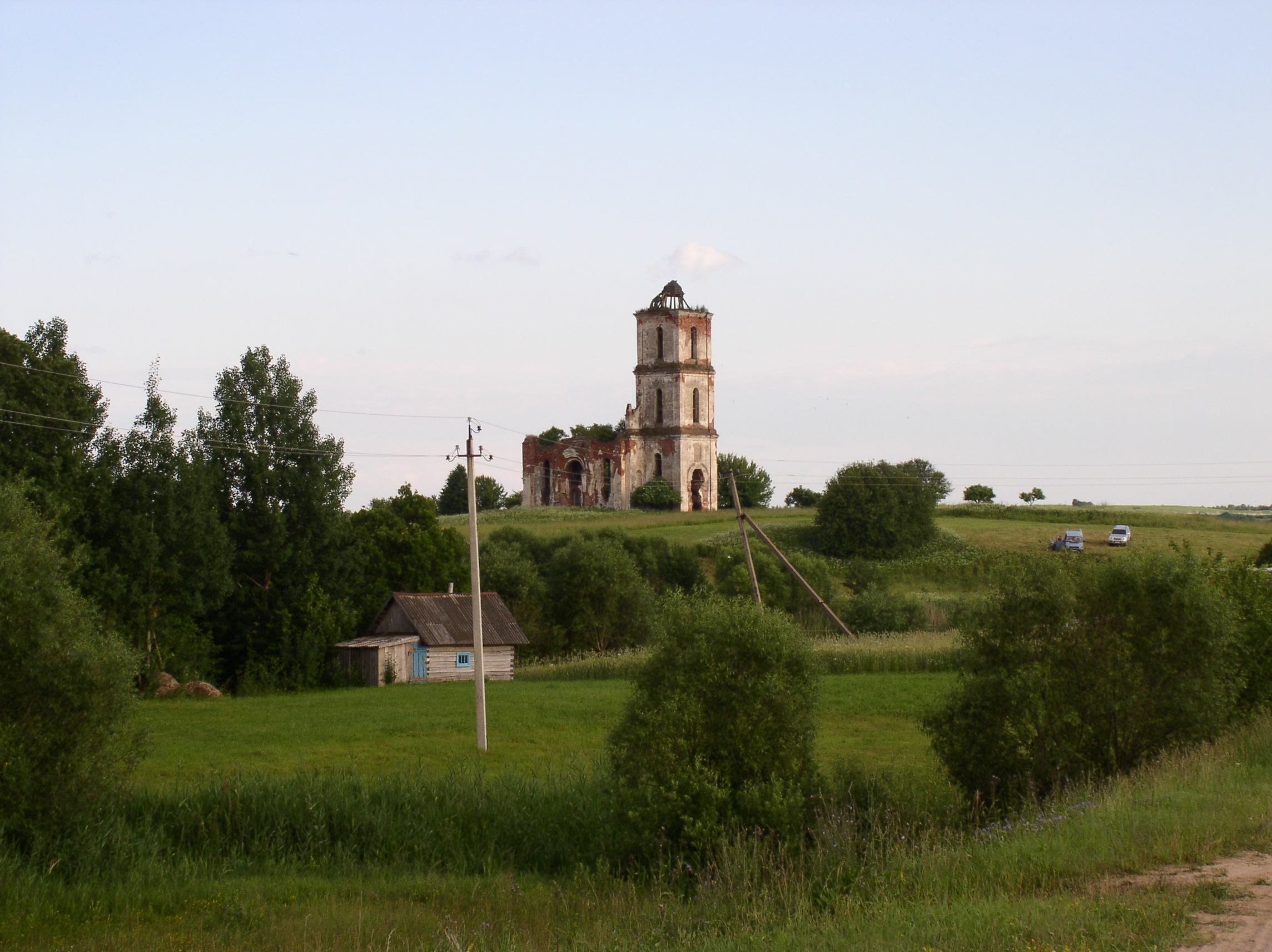 Church of Holy Trinity, Belaya Tsarkva, Belarus.